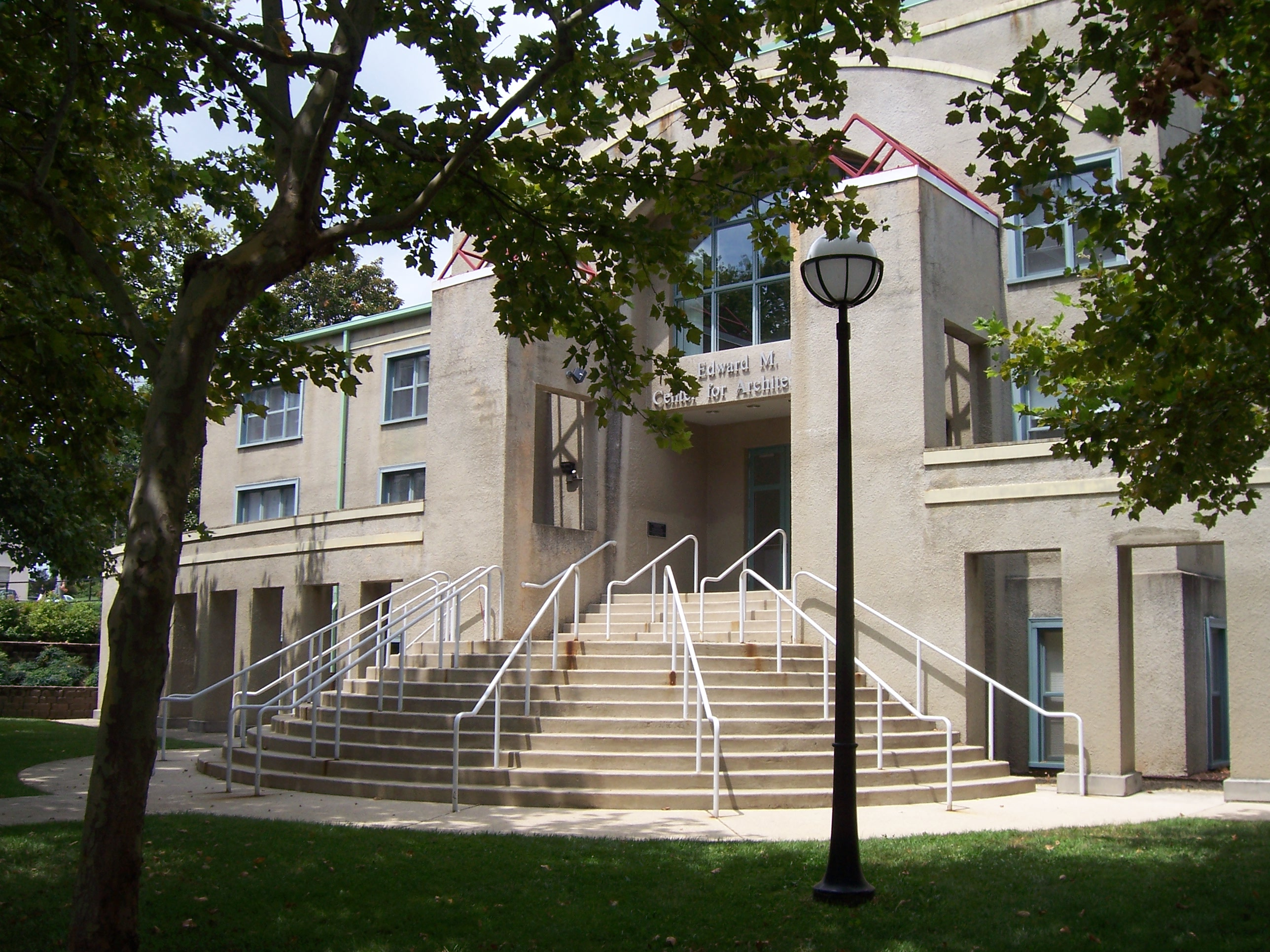 Edward M. Crough Center for Architectural Studies, Catholic University of America (Washington, D.C.)